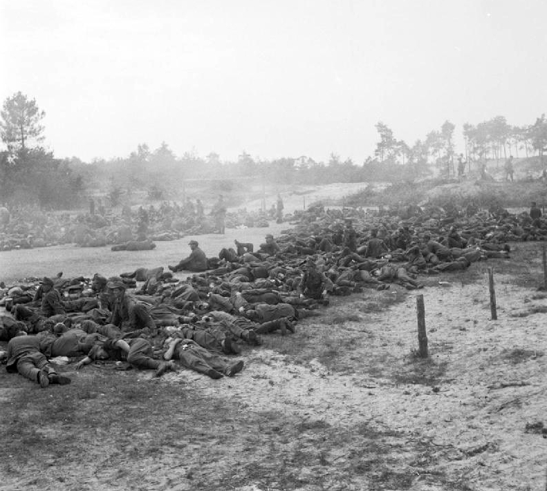 A large group of German soldiers who have been taken prisoner in Nijmegen and the surrounding area by American paratroopers of the 82nd U.S. Airborne Division, 17 - 20 September 1944